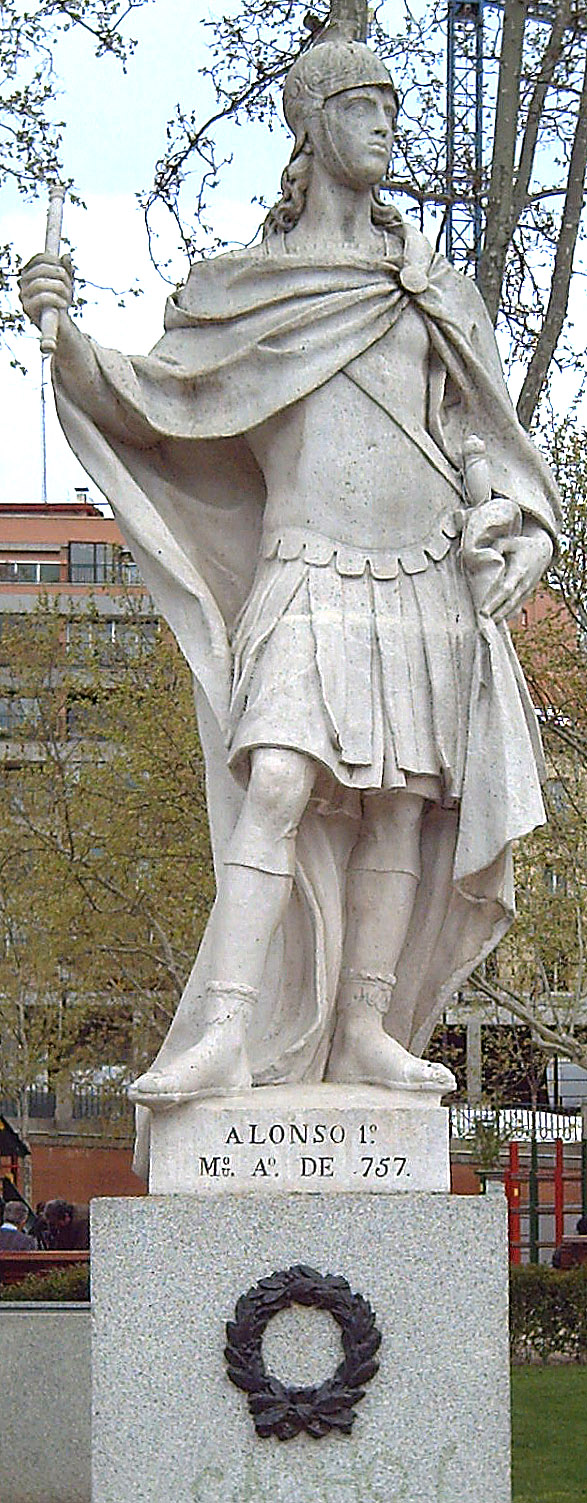 Statue of Alfonso I of Asturias († 757) at the Plaza de Oriente (square) in Madrid (Spain). Sculpted in white stone by Juan Porcel (born c.1700) between 1750 and 1753.